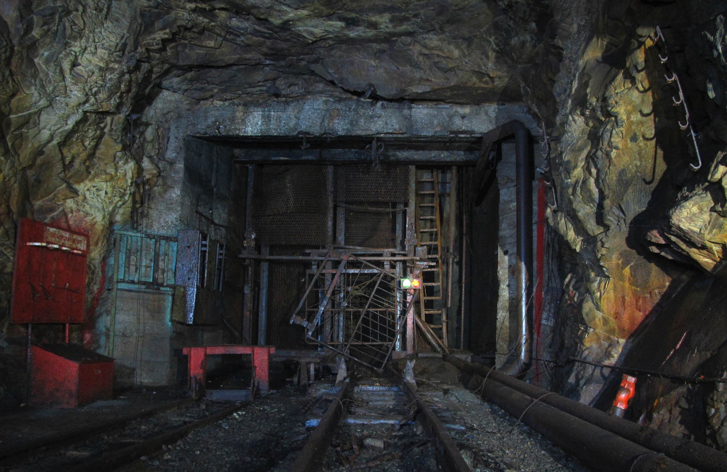 Abandoned mine shaft in uranium mine (mt. Byk)